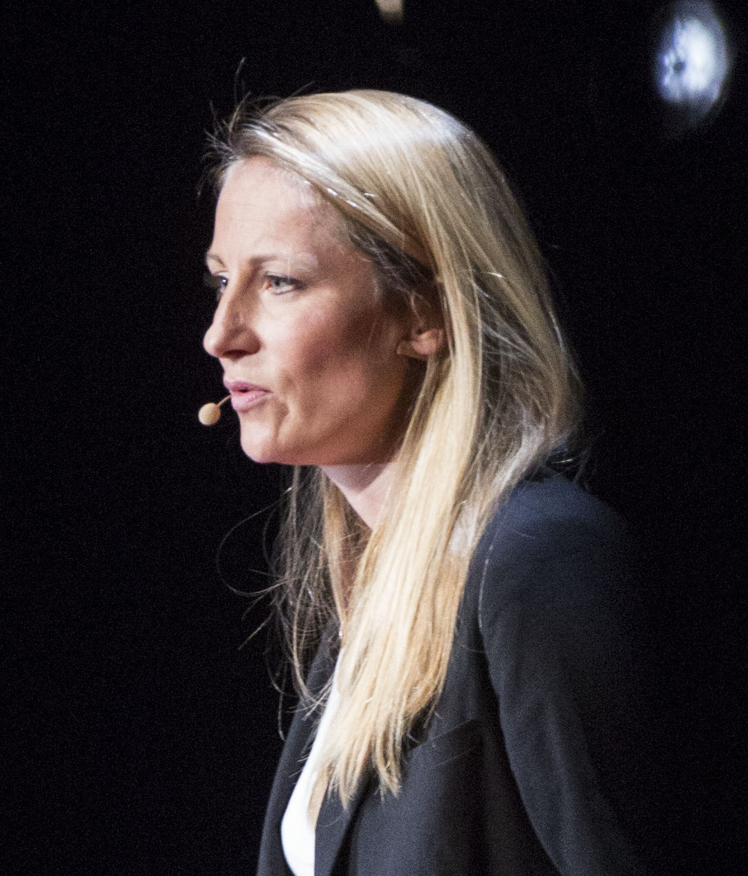 Véronique de Viguerie at a TED conference in Paris